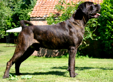 Chiaro y Tondo's Viggo, a Cane Corso with natural ears and tail.